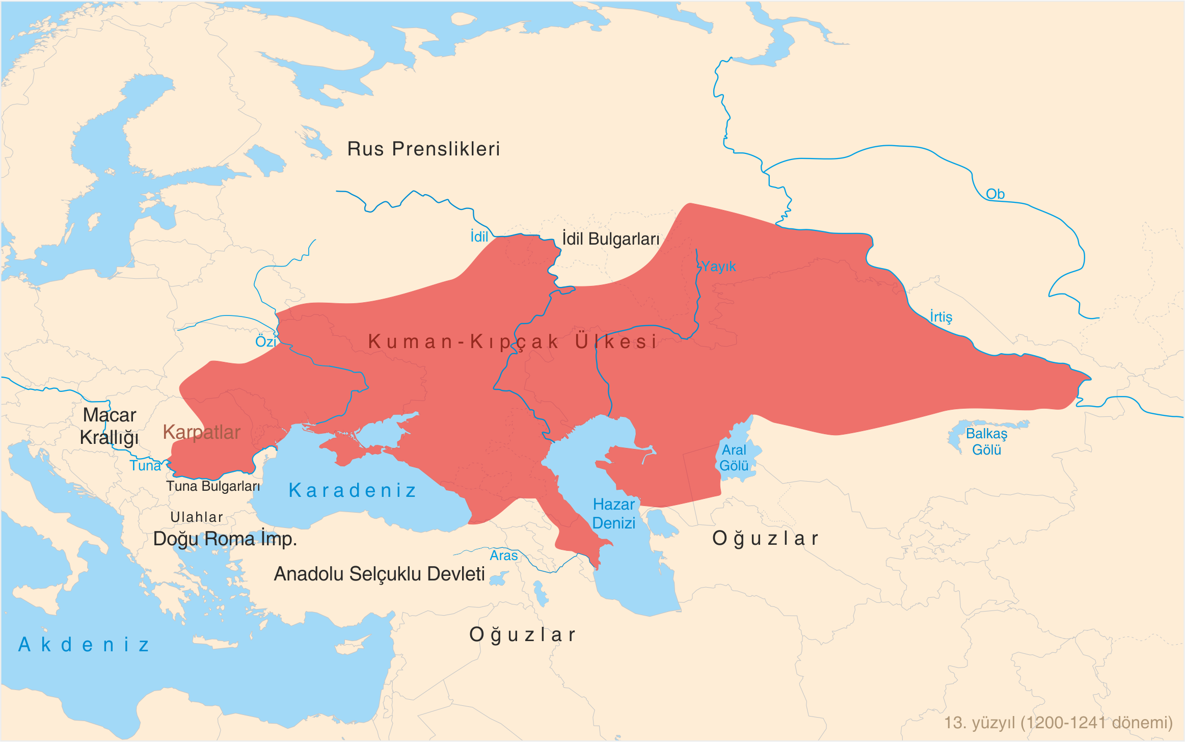 Map of State of Cuman-Kipchaks in the 13th Century (1200-1241 period) in Turkish with todays (2011) borders. Harita Kaynakları: Asıl Kaynak: István Vásáry, (Çeviren: Ali Cevat Akkoyunlu) Kumanlar ve Tatarlar, Osmanlı Öncesi Balkanlar’da Doğulu Askerler (1185-1365), YKY, İstanbul 2008 ISBN 978-975-08-1310-8 Ek Kaynaklar: The Public Schools Historical Atlas by Charles Colbeck. Longmans, Green; New York; London; Bombay. 1905. Eurasia before the mongolian invasion.